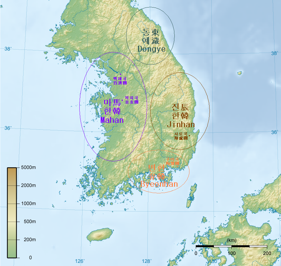 samhan map